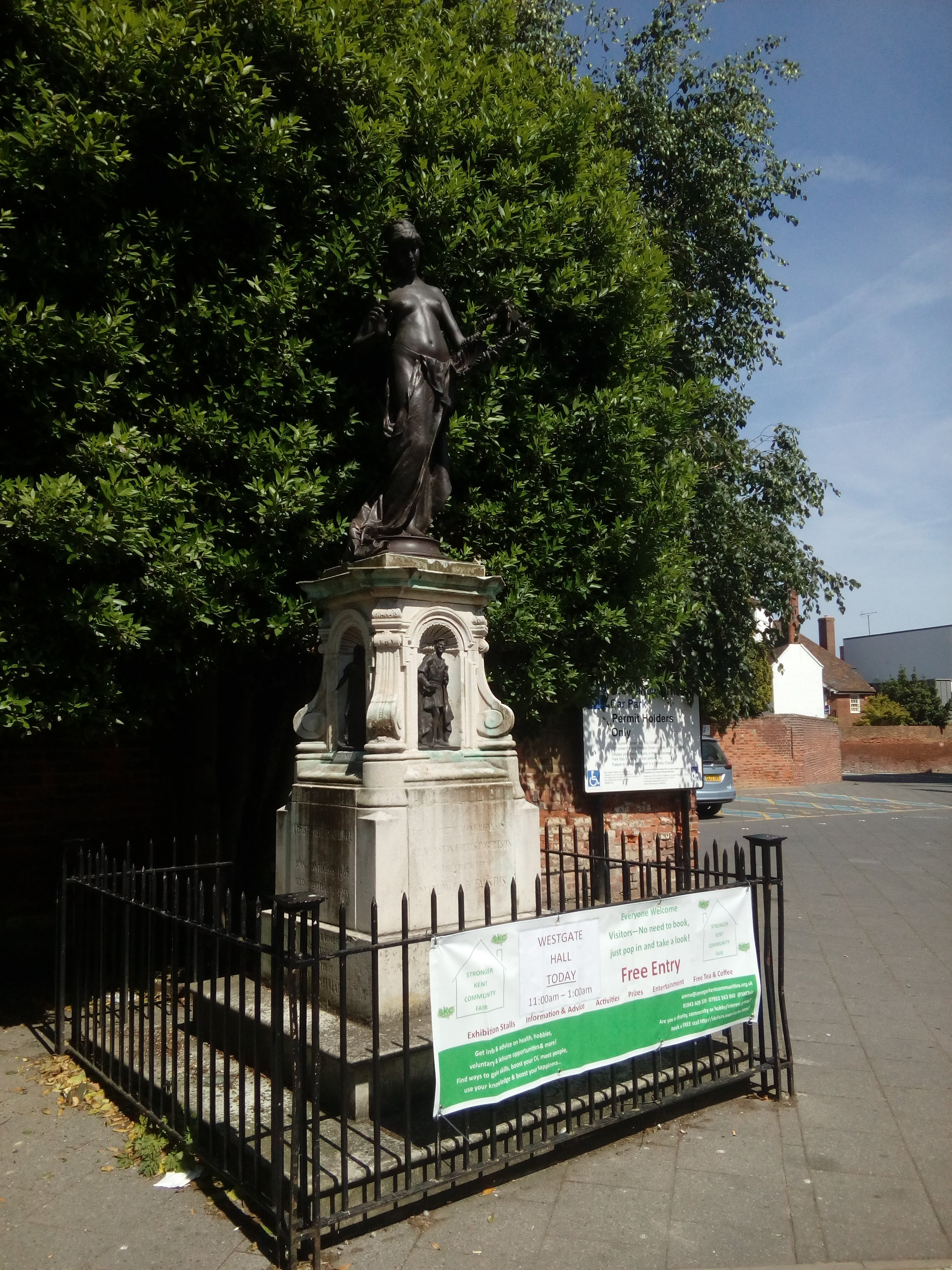 Statue in memory of Christopher Marlowe near the Marlow Theater in Canterbury